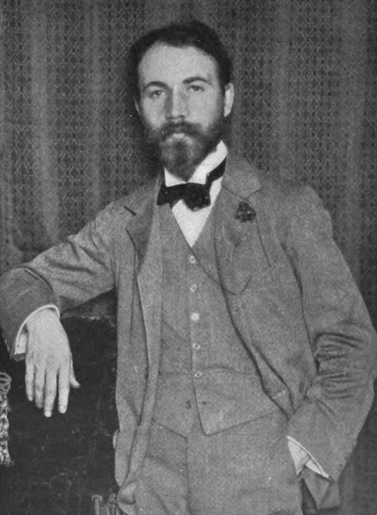 Bernard Berenson